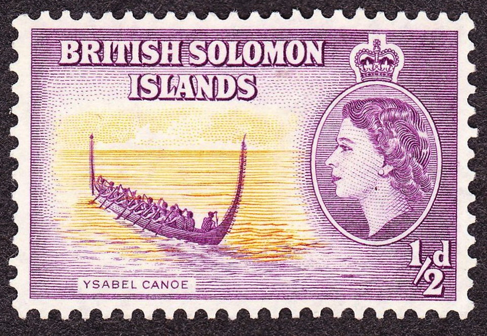 UK/Brtish Solomon Islands postage stamp